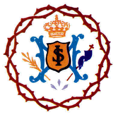 Emblem of Servants of Mary Minister of Sicks, religious congregation